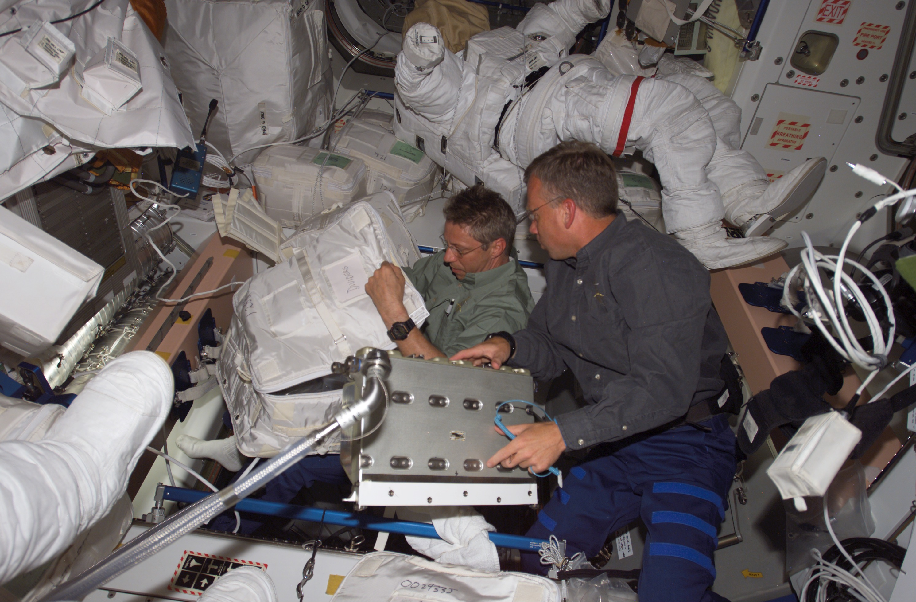 European Space Agency astronaut Thomas Reiter (left) and astronaut Steven W. Lindsey work in the Quest Airlock aboard the International Space Station during their first day on the orbital outpost. Lindsey, STS-121 commander, will spend a little over a week there, and Reiter is scheduled for a six month stay. Astronaut Piers J. Sellers' extravehicular mobility unit space suit for the scheduled July 8 space walk is in the background.